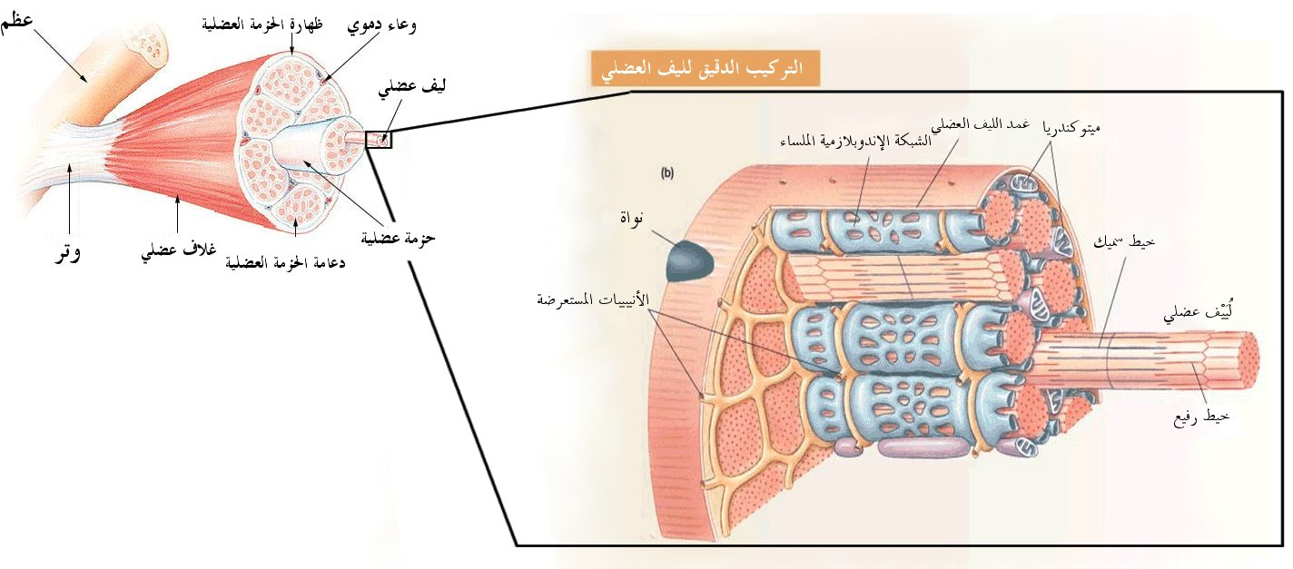 Skeletal muscle #Bone #Perimysium #Blood vessel #Muscle fiber #Fascicle #Endomysium #Epimysium #Tendon from